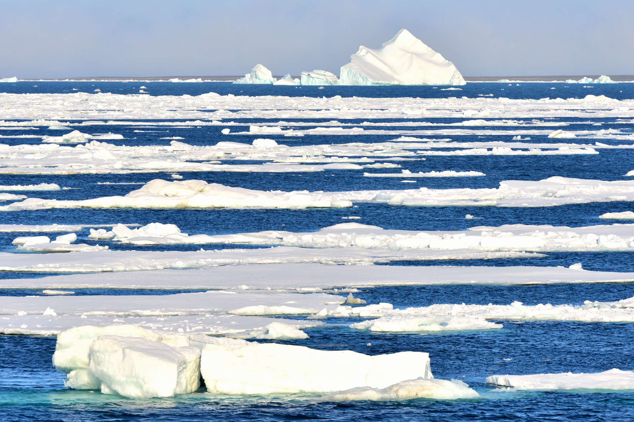 Iceberg road (79°28‘N, 103°E); Laptev Sea at Northeast coast of Bolshevik Island (Severnaya Semlya, Russia)